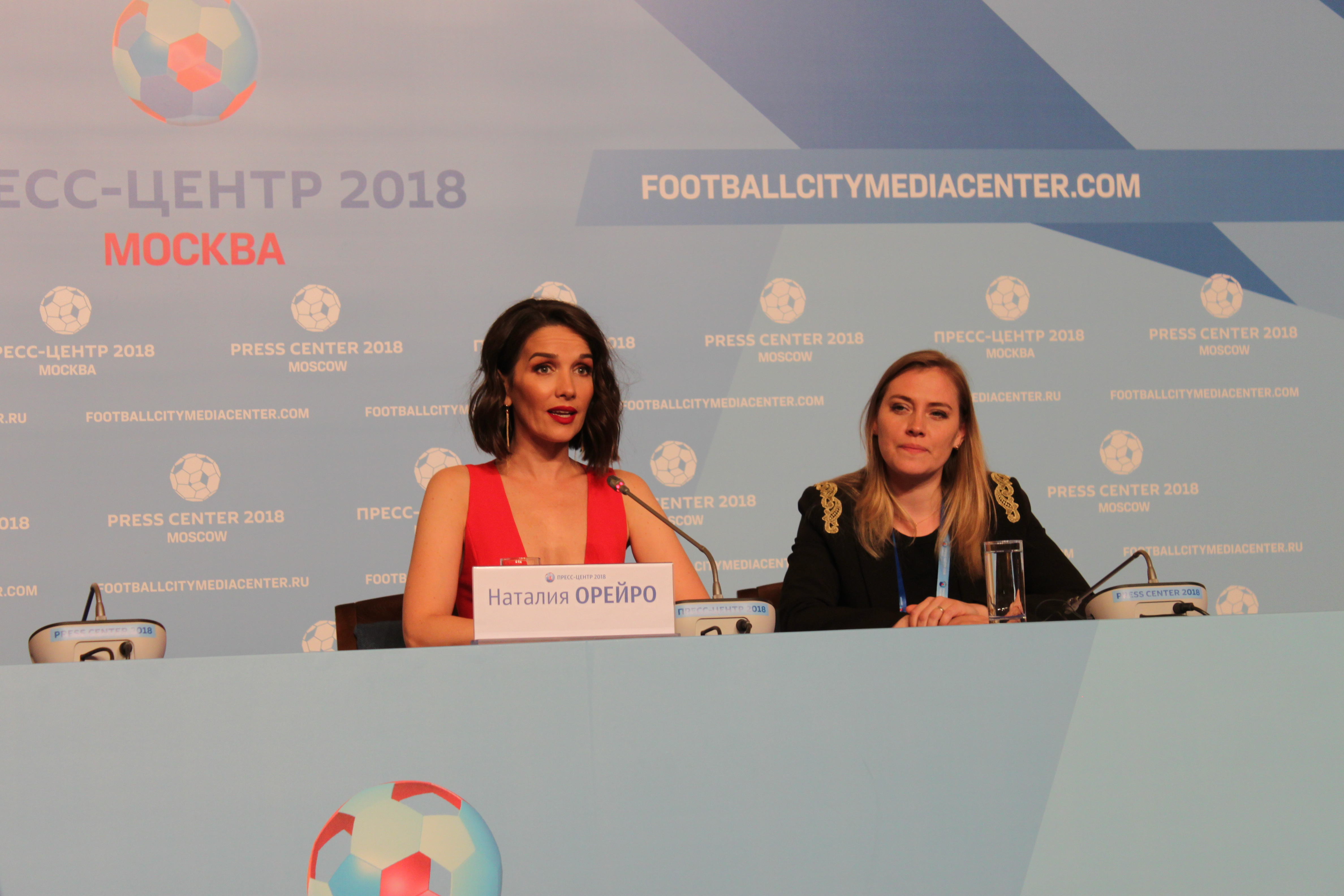 Press conference of Natalia Oreiro in the Moscow press-center (2018-06-05).